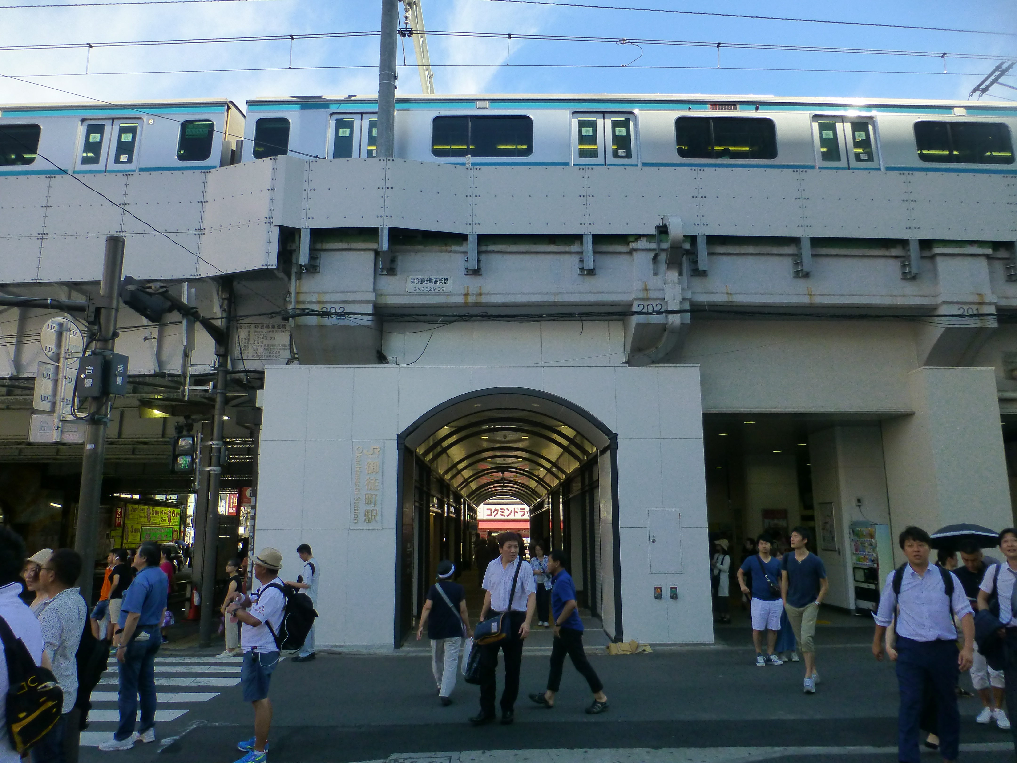 Okachimachi Station north exit